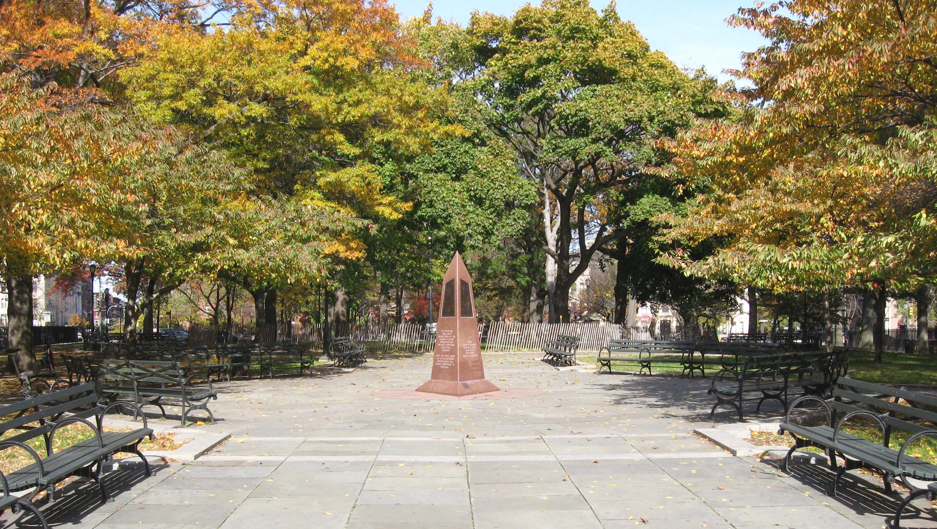 Looking north at central monument of Ronald McNair Park on a sunny midday. See also File:Joseph Guider Memorial jeh.JPG at the south end of the park and File:Ron McNair Pk jeh.JPG for northern picture of this monument.